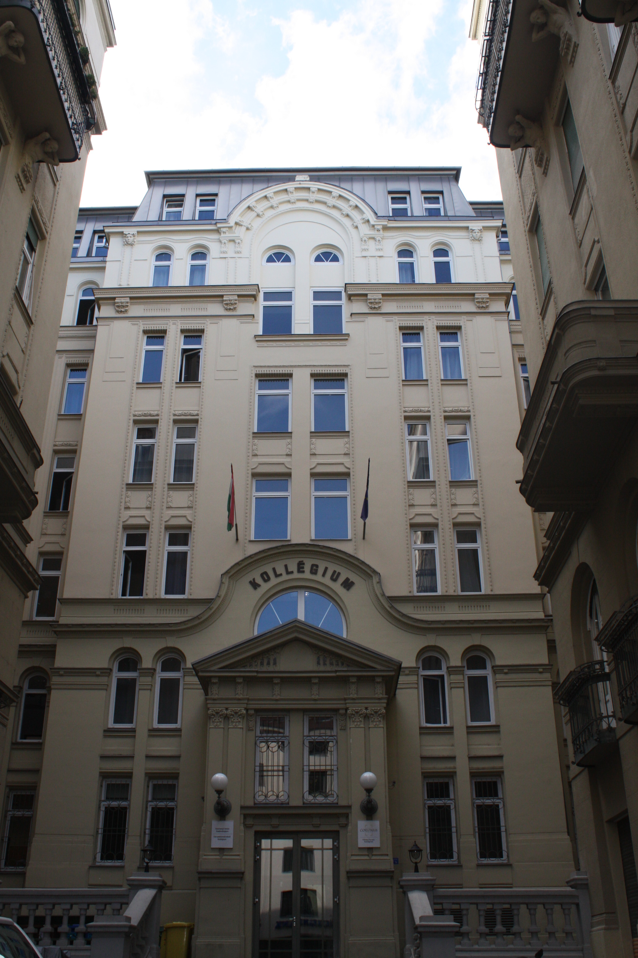 Földes Ferenc Dormitory, Ráday street, Budapest. This is a photo of a monument in Hungary, Identifier: 8086